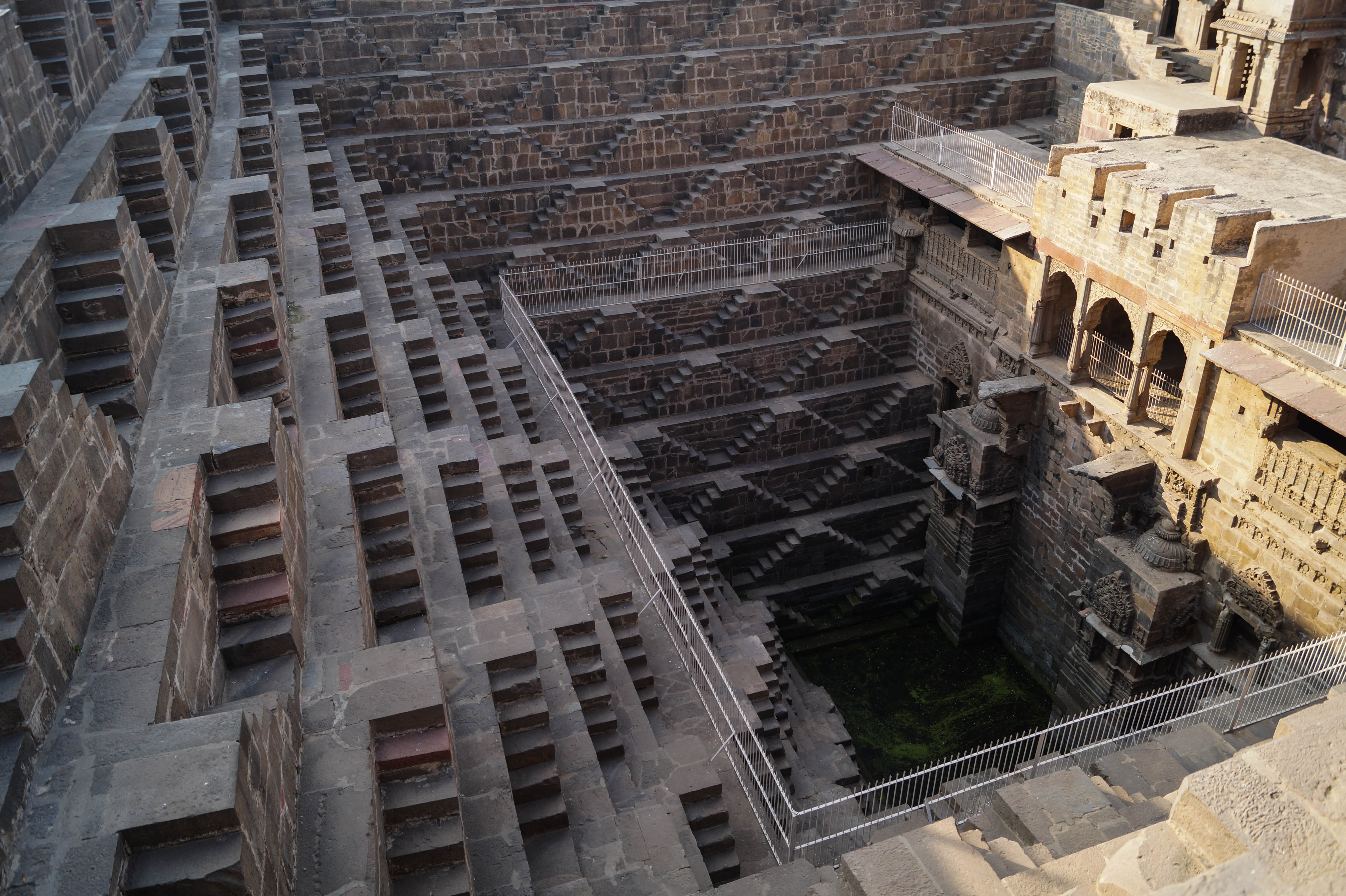 Baori